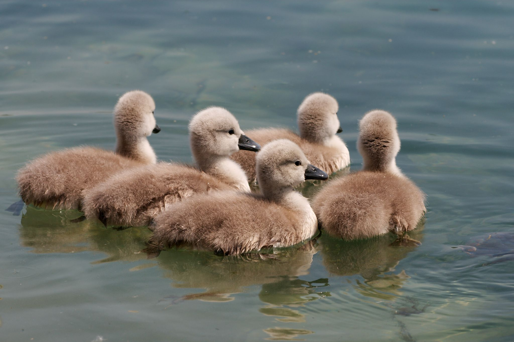 Five swans, a couple of weeks old I believe. Wonderfully aligned :-)